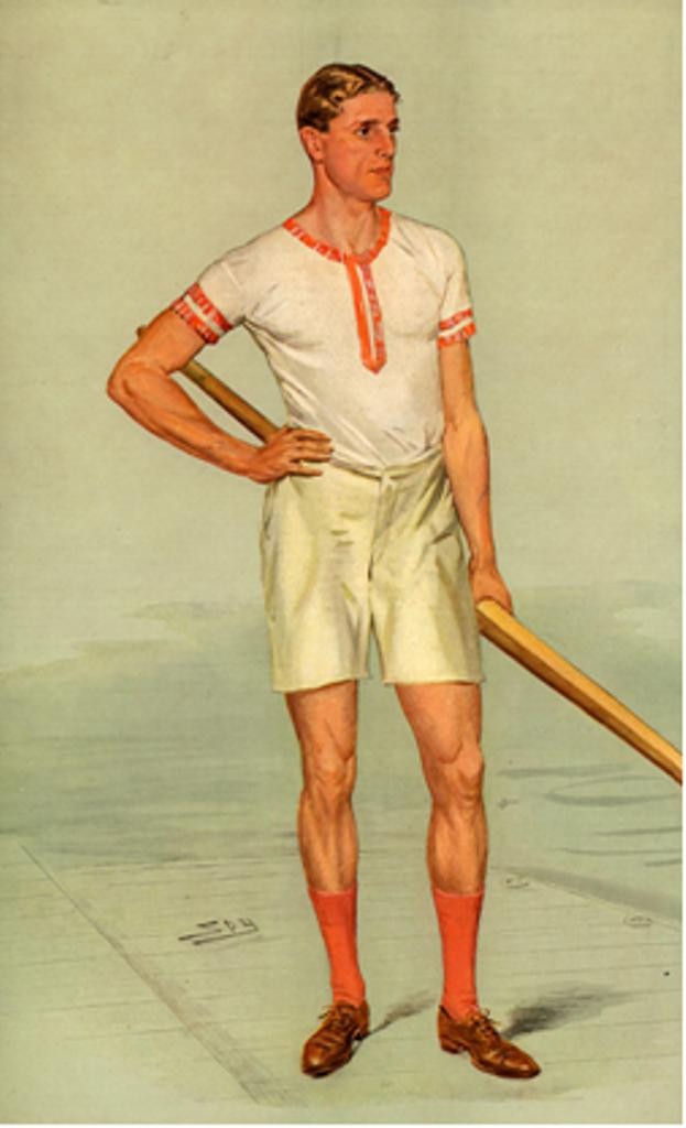 Caricature of Raymond Etherington-Smith. Caption read “Ethel”.